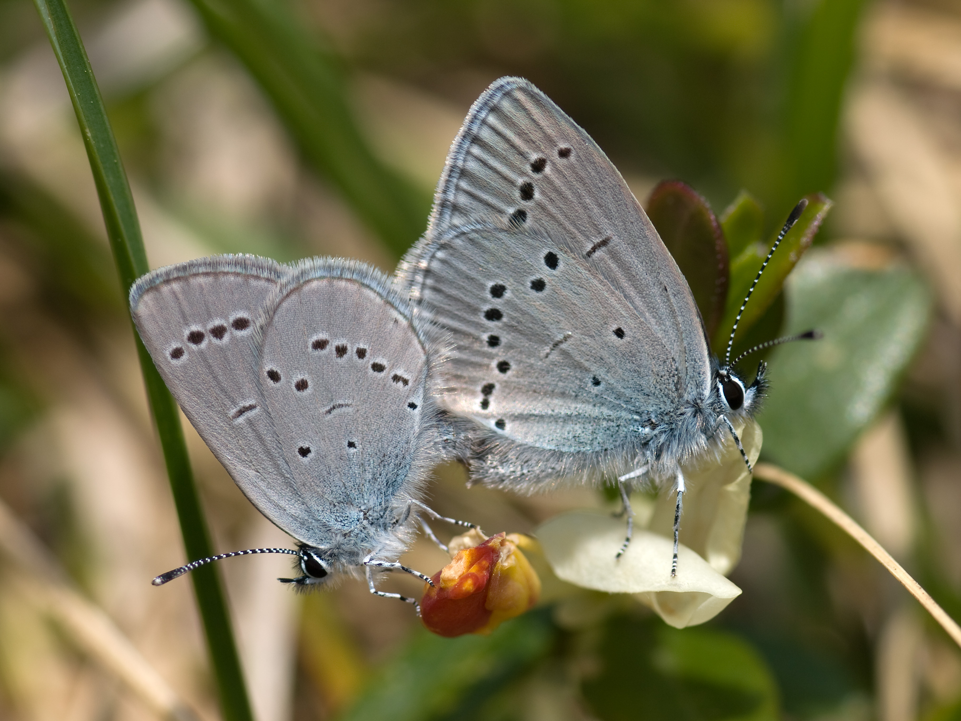 Cupido minimus in copulation; sitting on Polygala chamaebuxus, picture taken in the Ramsau/Bavaria Zwerg-Bläuling, Cupido minimus bei Kopulation; auf Buchs-Kreuzblume Polygala chamaebuxus, aufgenommen in der Ramsau